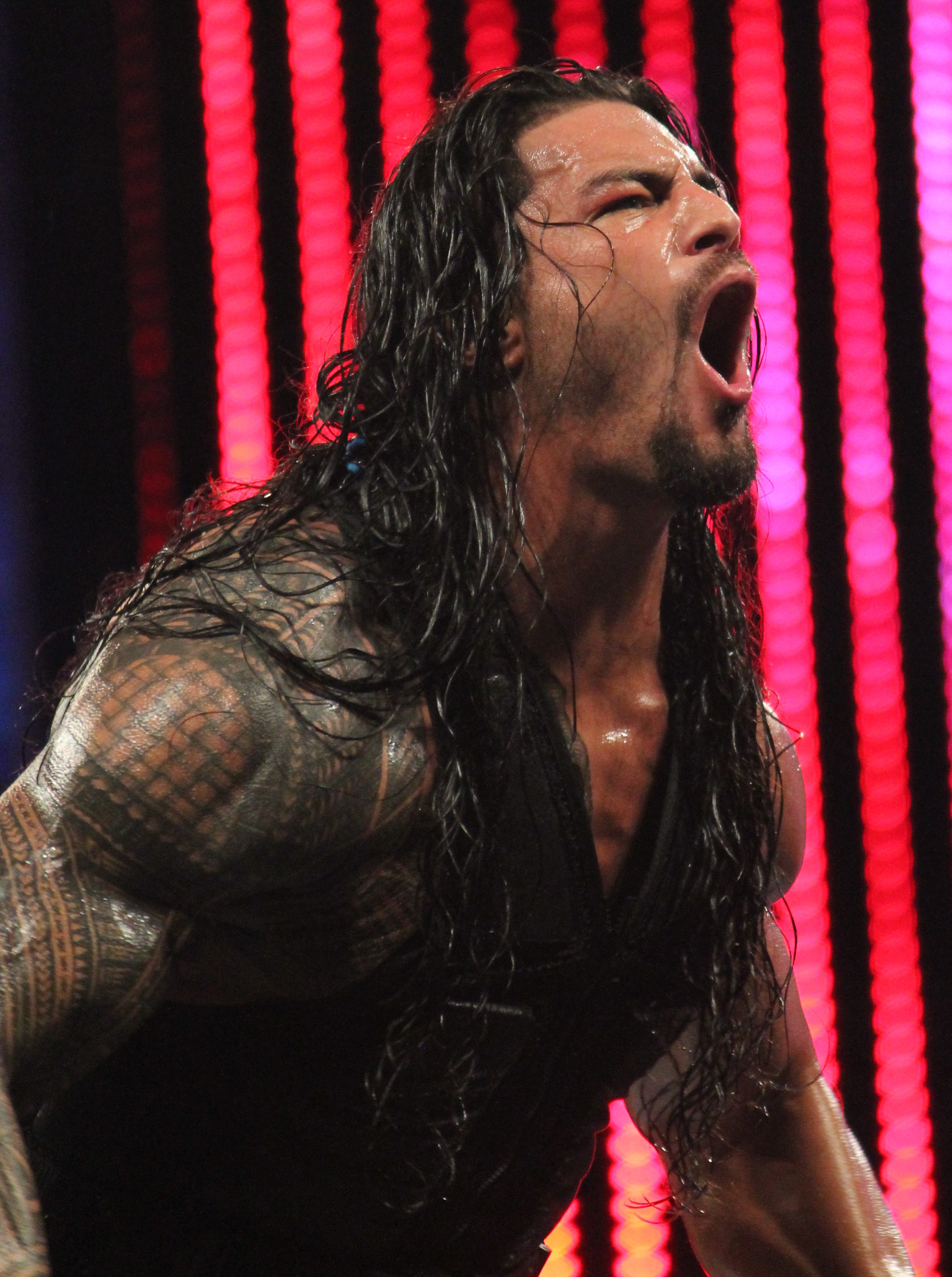 Roman Reigns at the post-WrestleMania SmackDown tapings on 8 April 2014 in Lafayette.